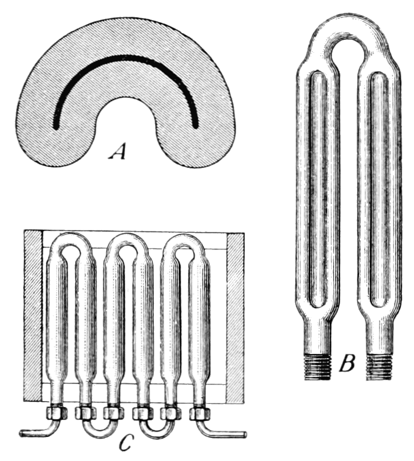 Details of the Serpollet carriage